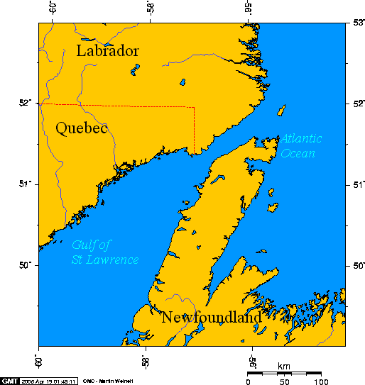 from Image:Strait of belle isle.png Strait of Belle Isle, between Newfoundland and Labrador. By Geo Swan, 23:55, 18 April 2005